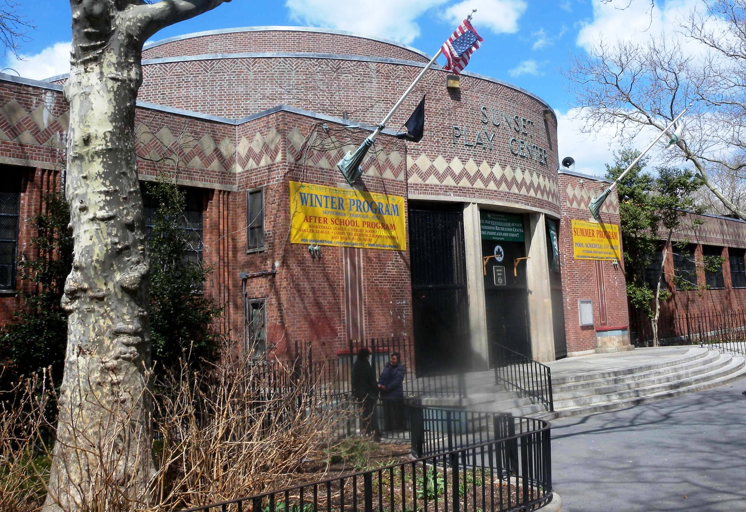 Looking north at Play Center on a mostly sunny early afternoon.